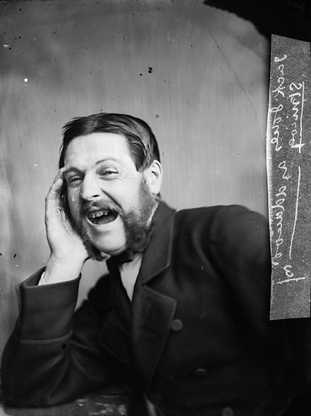 1 negative : glass, wet collodion, b&w ; 11 x 8.5 cm.